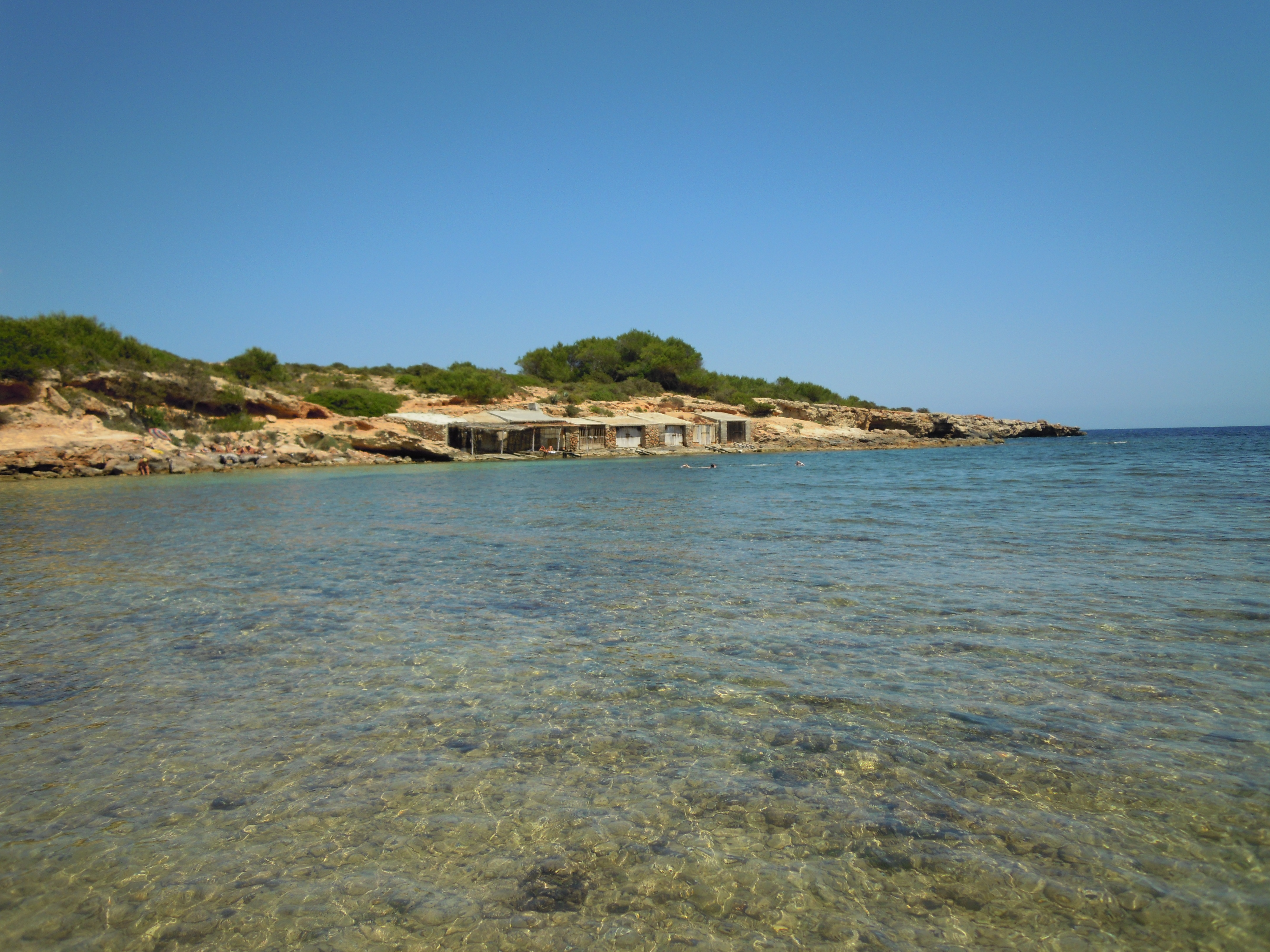 Photograph of the beach at Platja S'Estanyol, Ibiza, Spain